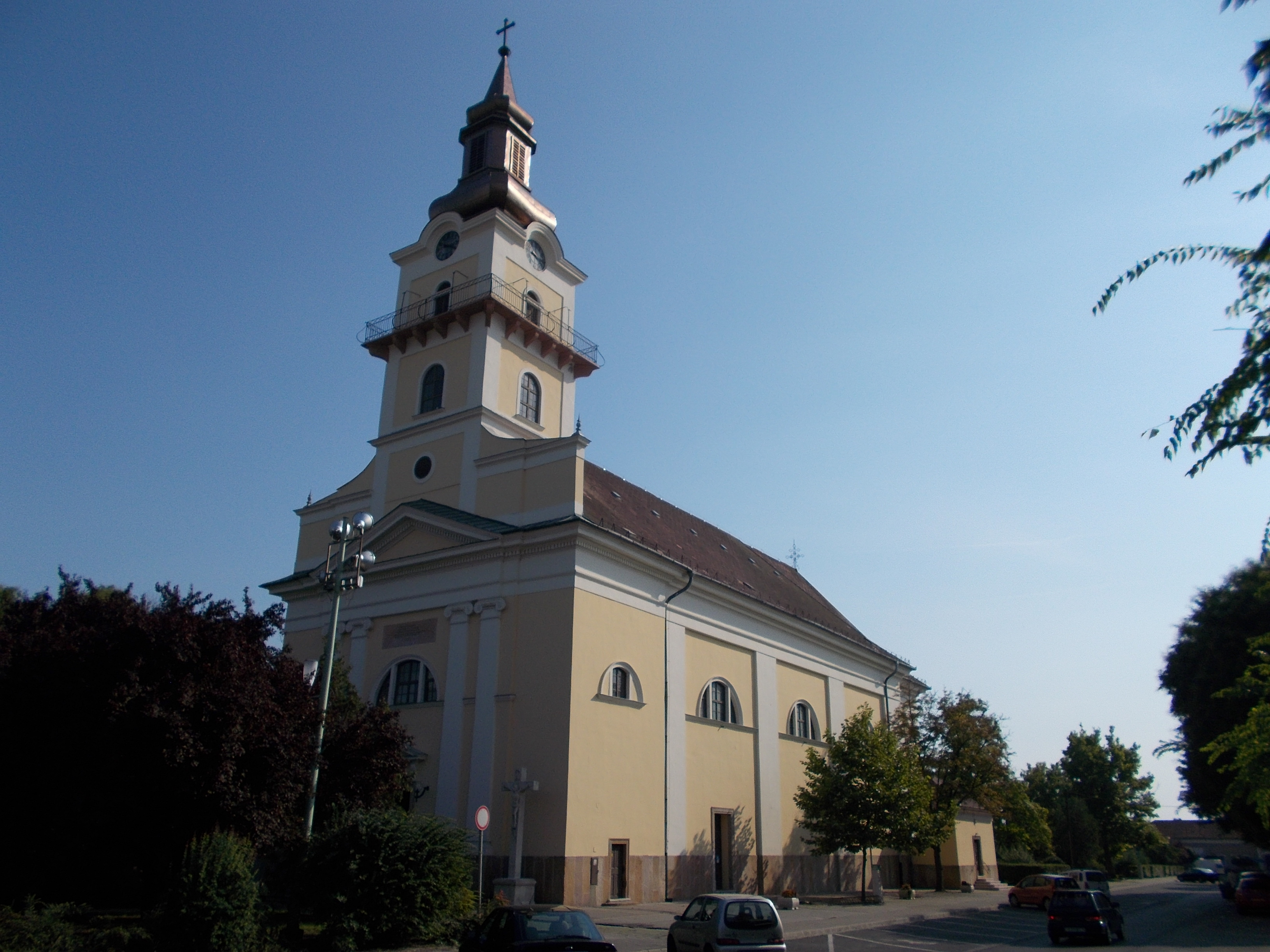 Roman Catholic parish church. Built by Ferenc Homályosi in 1822-1827. Ionic capitals on pilasters. Palladian windows. Wall painting from 18th century. Two angel satue on the altar made by Lőrinc Dunaiszky. - Kossuth Sq., Cegléd, Pest County, Hungary